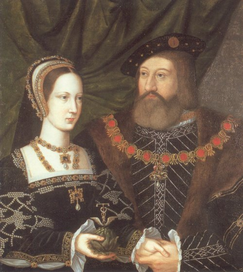 Portrait of Mary Tudor and Charles Brandon. Copy of the original of a double portrait celebrating the marriage of Mary Tudor to her brother's closest friend. They wed secretly in 1515, a mere six weeks after her first husband's death. Mary was passionately in love and willing to risk her brother's wrath. Brandon was in love and very ambitious. Their granddaughter was the unfortunate 'Nine Days Queen', Lady Jane Grey. Brandon is wearing the collar of the Order of the Garter